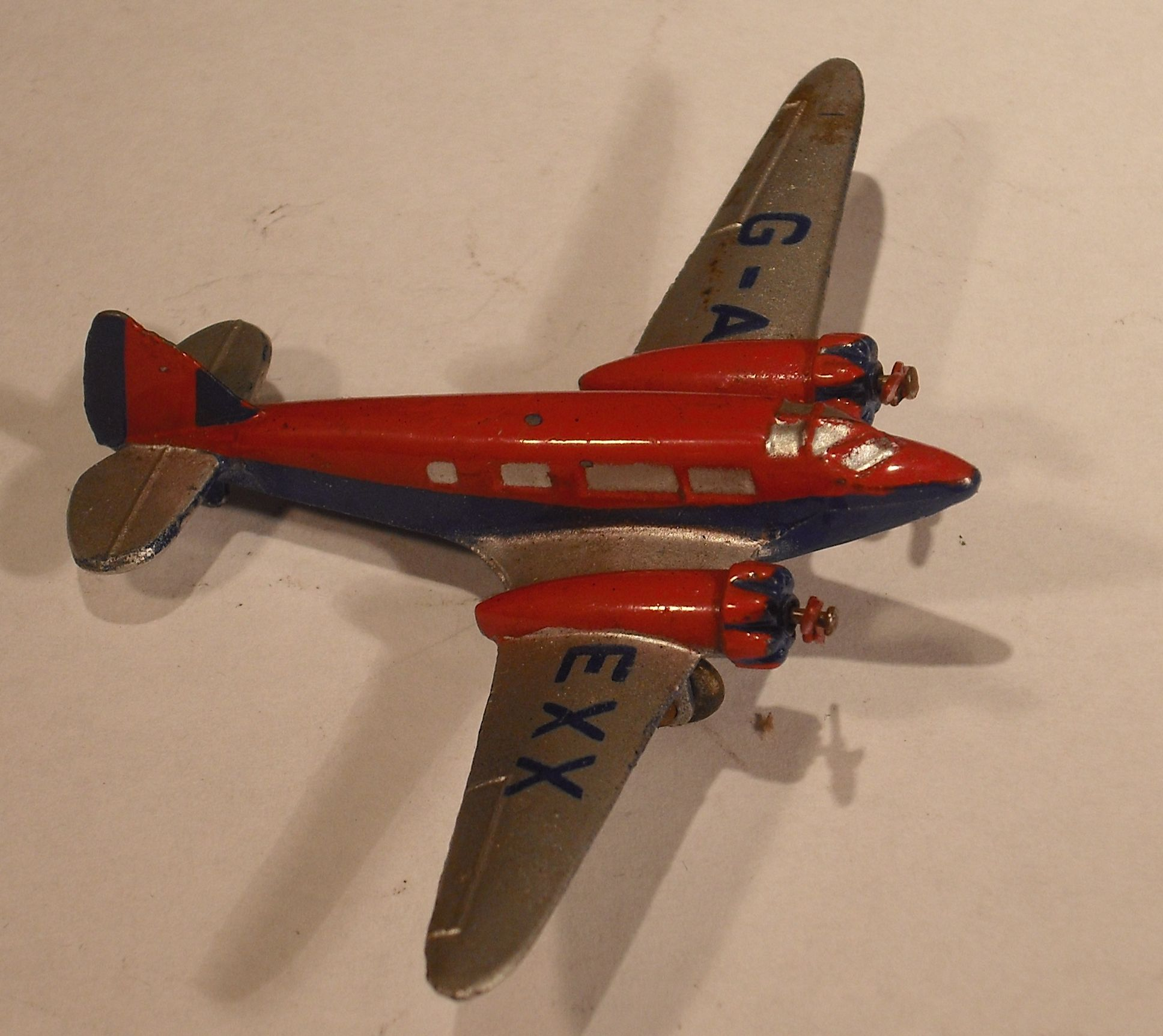 Dinky Toy model Scale model of the "Airspeed AS.6 Envoy" supplied to the Air Council for the King's Flight. It is finished in the colours of the actual aeroplane, and bears the correct registration letters (G-AEXX) on the wings. This machine differs from the standard "Envoy" only in its luxurious equipment. It is a twin-engined low wing monoplane, fitted with two Armstrong Siddeley "Cheetah IX" engines, and has a top speed of 203 mph. It has accommodation for four passengers, pilot, radio operator and steward, and is flown by Wing Commander E.H. Fielden, Captain of the King's Flight.